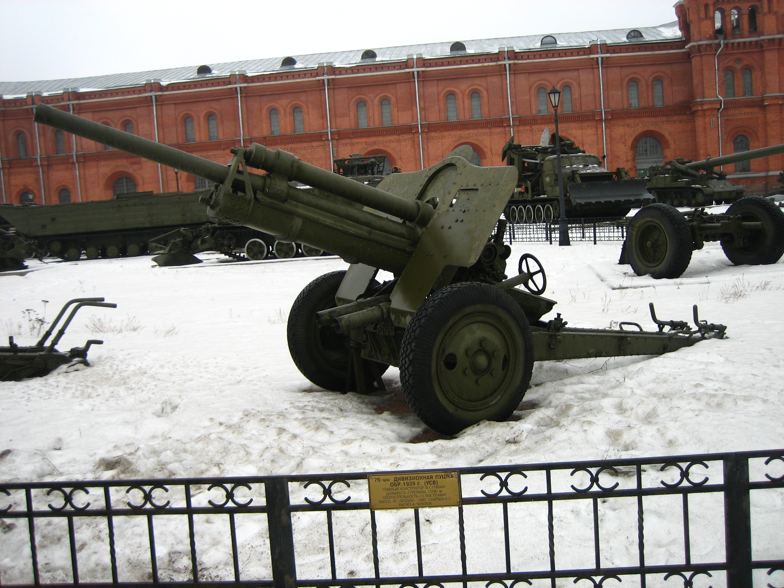 Soviet 76 mm gun M1939 (USV) in the Artillery Museum, St Petersburg, Russia. Photo taken on 3 Marсh, 2007. Source: Photo by me, User:Saiga20K.